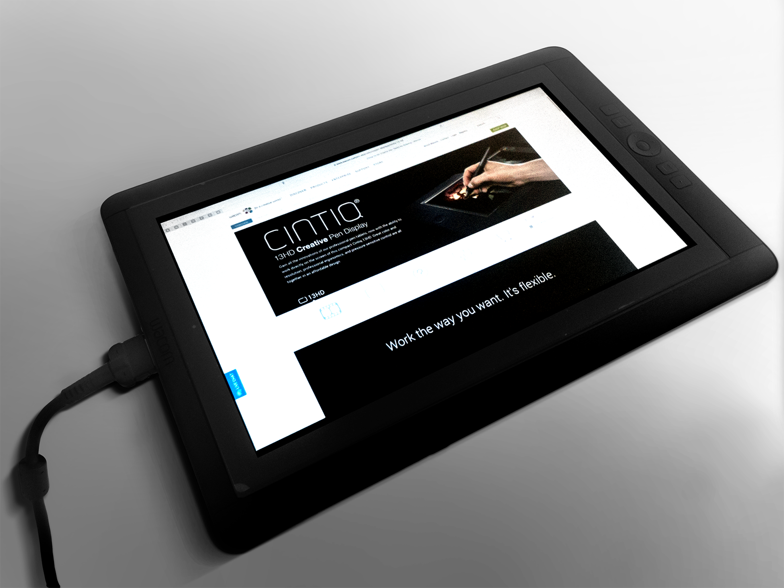 Wacom Cintiq 13HD Tablet